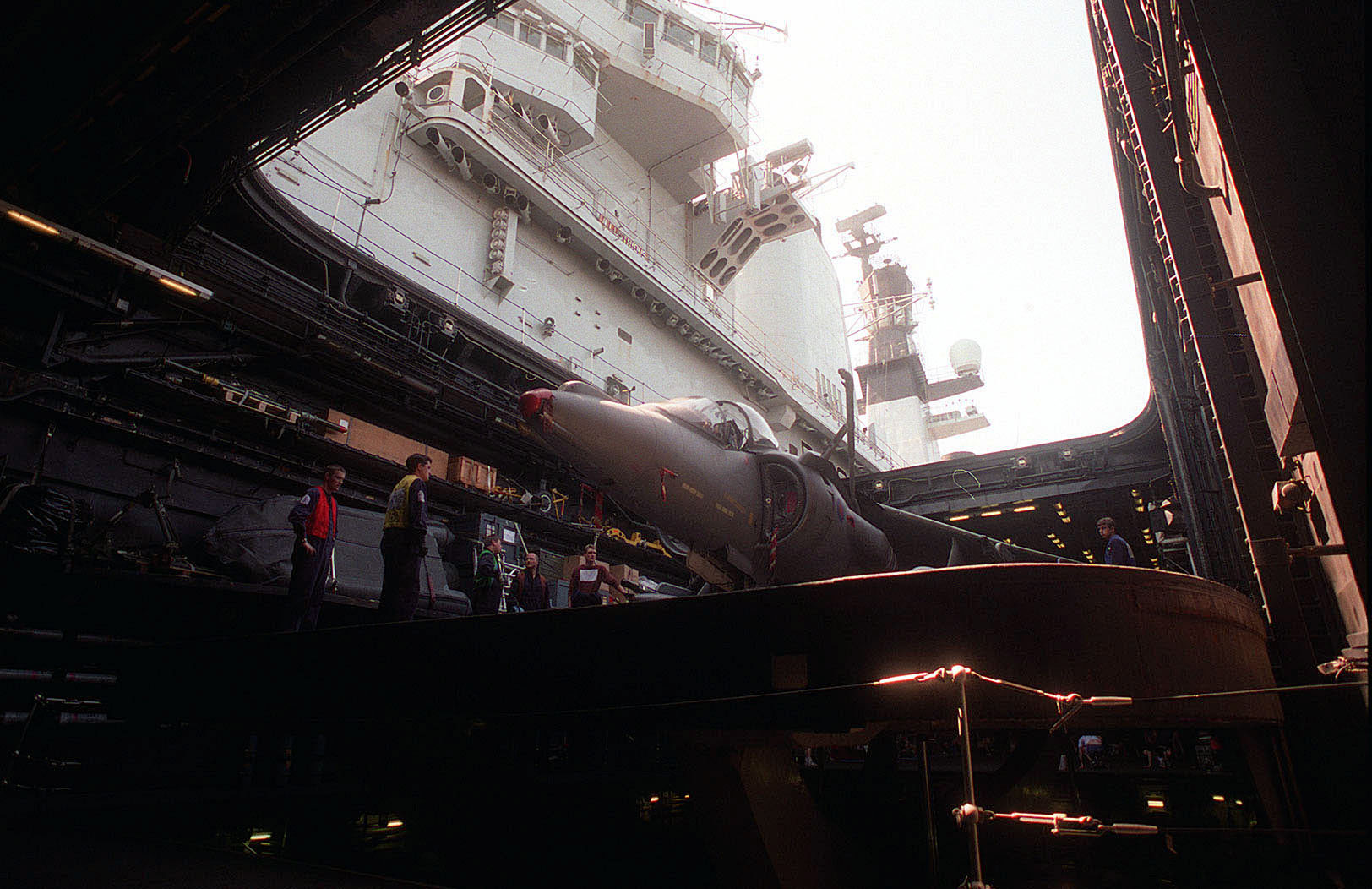 British crewmen lift a Royal Air Force British Aerospace Harrier GR7 onto the flight deck of the aircraft carrier HMS Illustrious (R06) on 12 March 1998. The British vessel was operating in the Persian Gulf.